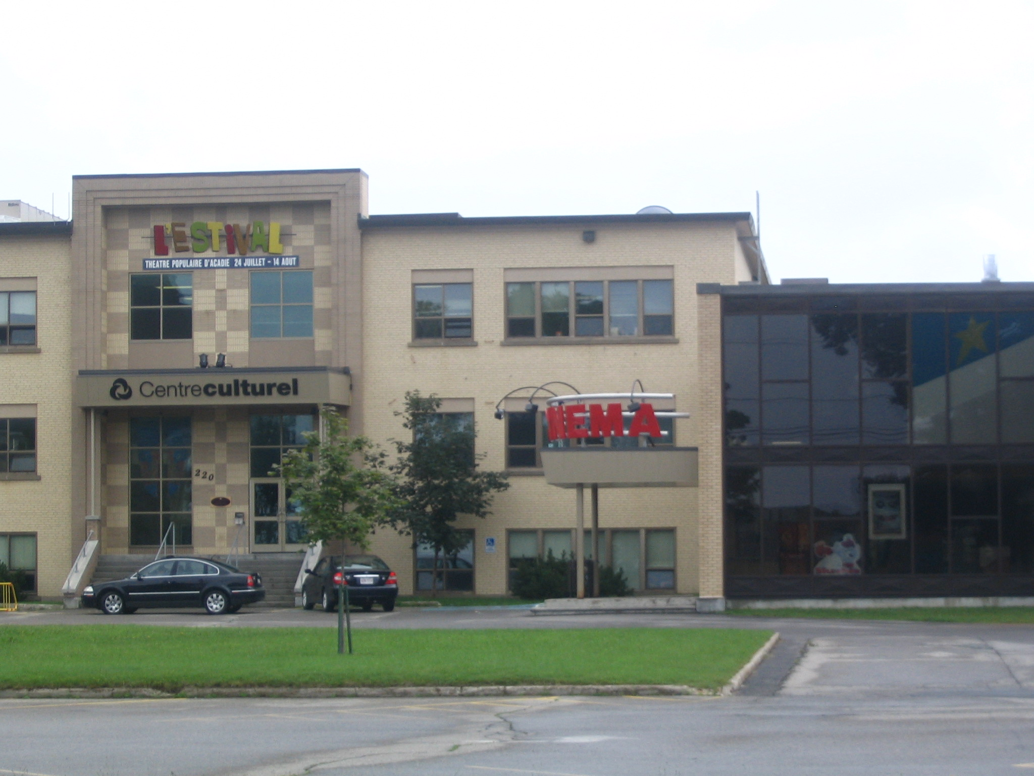 The cultural center of Caraquet, New Brunswick, Canada.